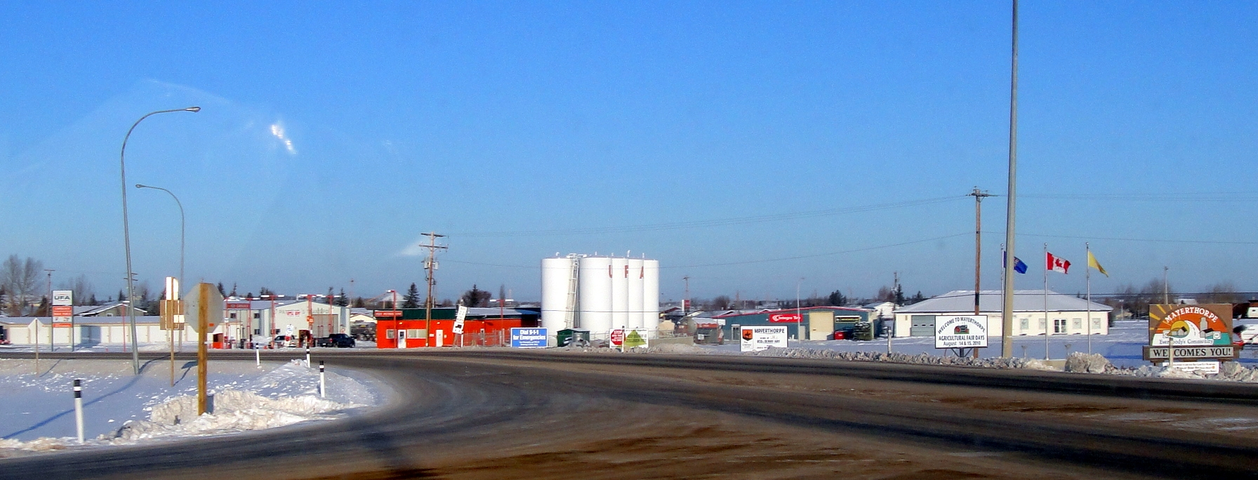 Entrance in Mayerthorpe, Alberta, Canada.